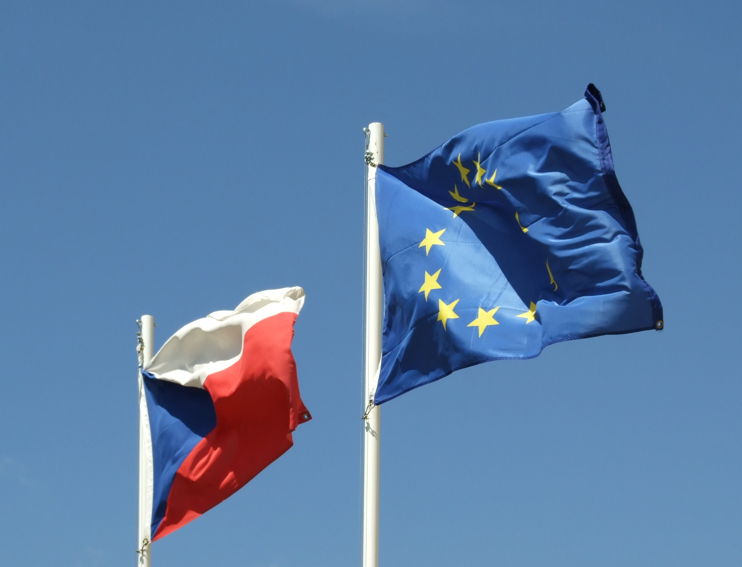 Czech Republic and European Union flags in Mníšek pod Brdy chateau, Central Bohemian Region, CZhelp